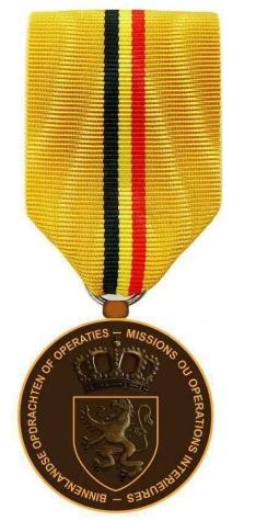 Obverse of the Belgium commemorative medal for homeland operations